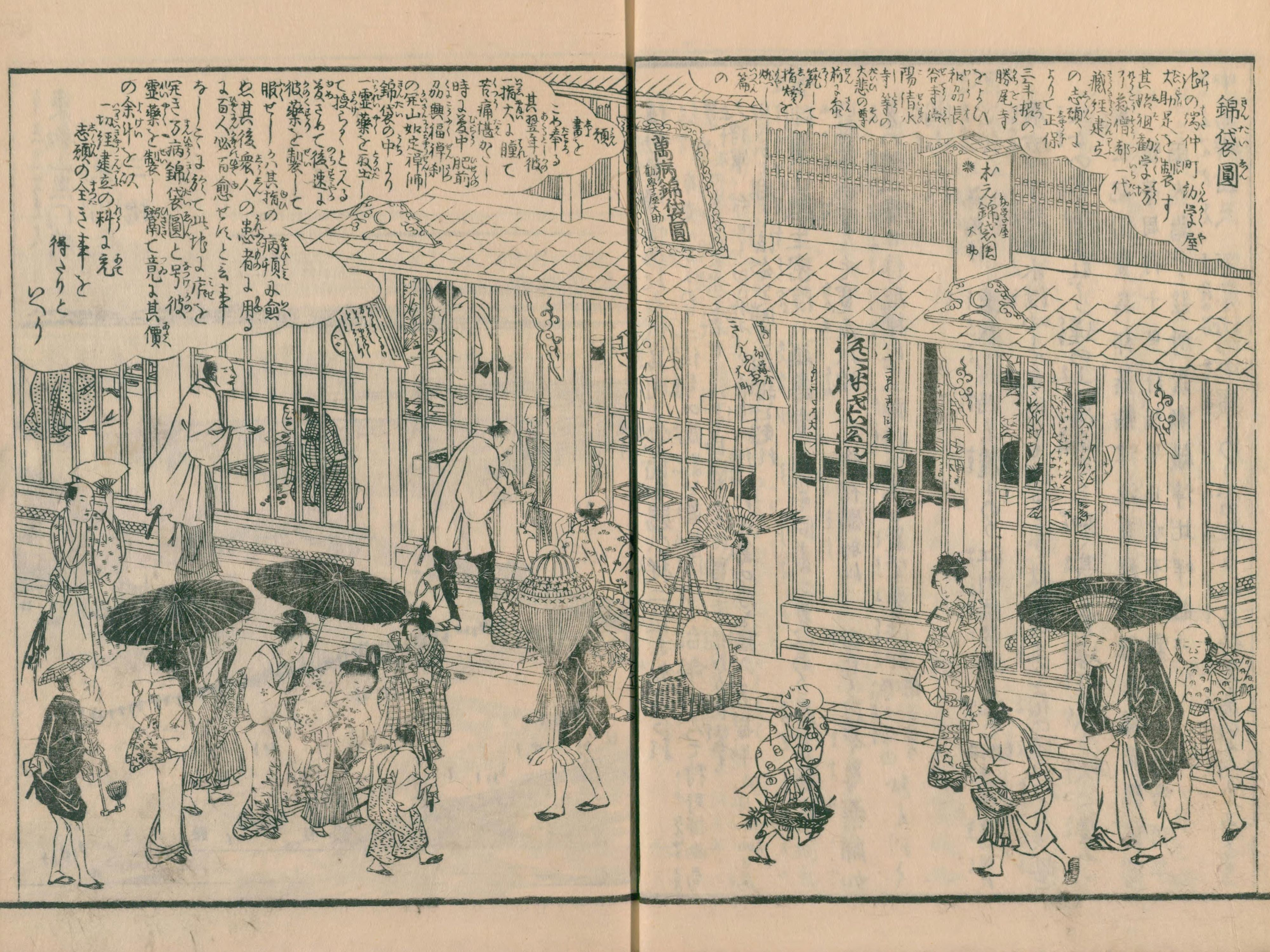 Kintaien (Drugstore) in Edo Meisho Zue vol. 7 (book 14)